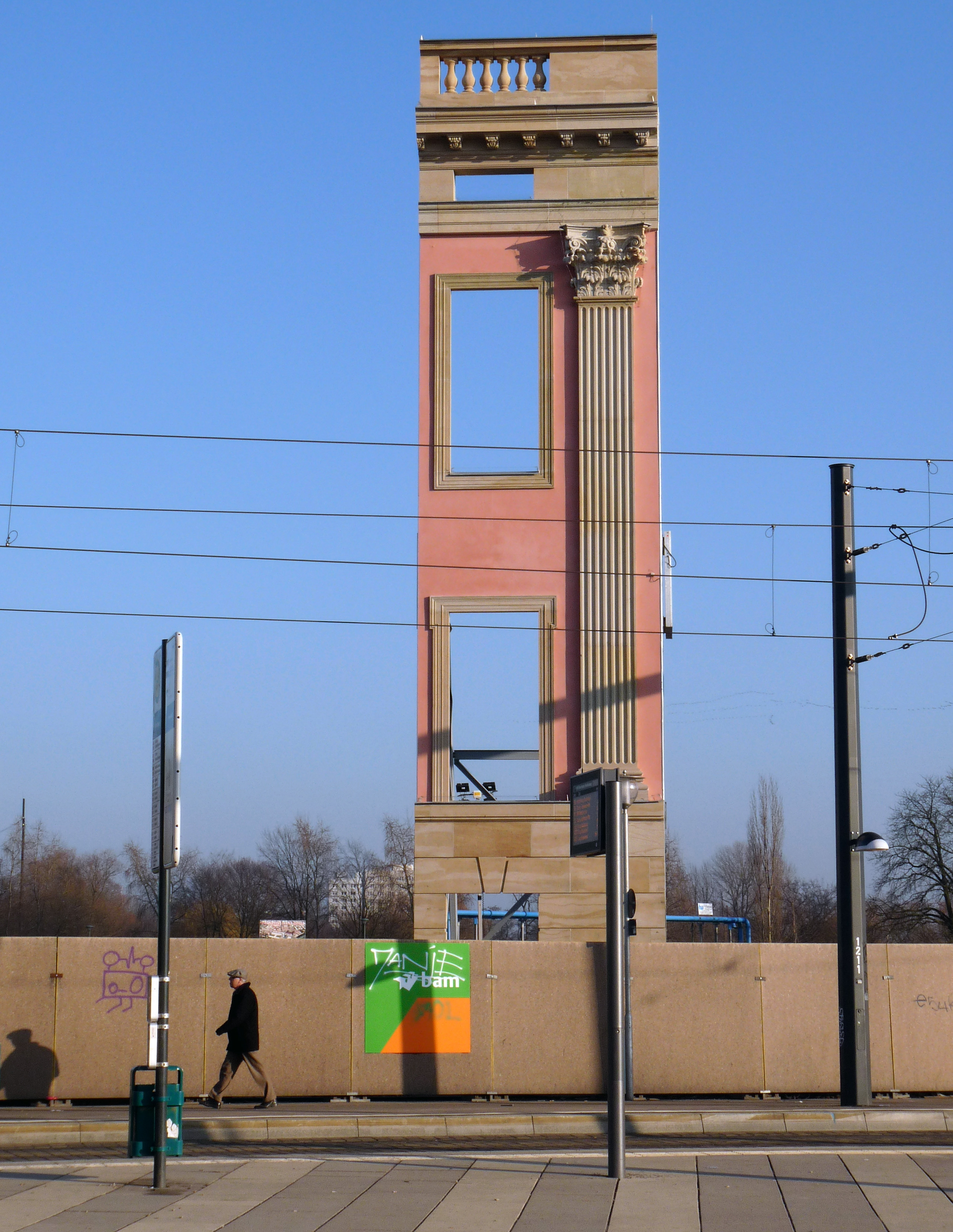 Partial facade of the Potsdam City Palace, under construction.